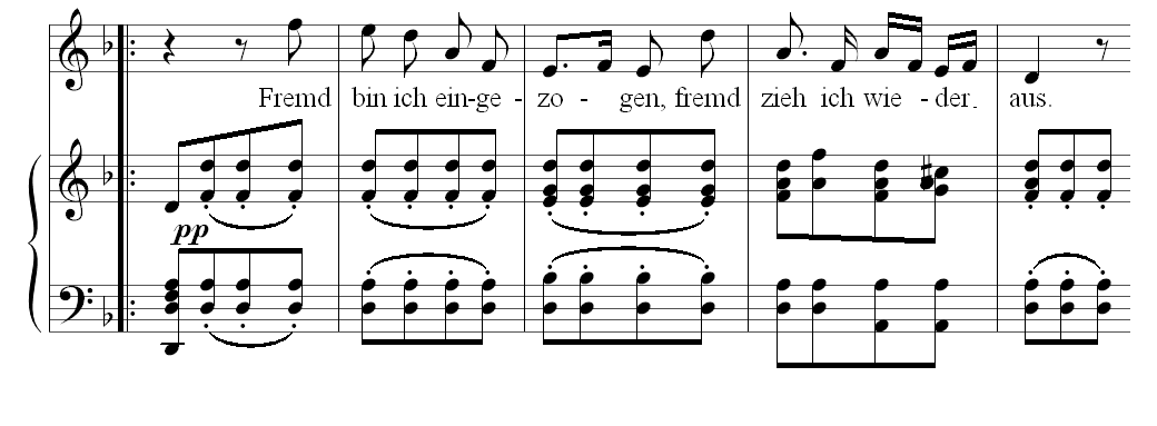 Schubert's Winterreise starts with this vocal line. (Correction of File:Schubert Gute Nacht.png.)